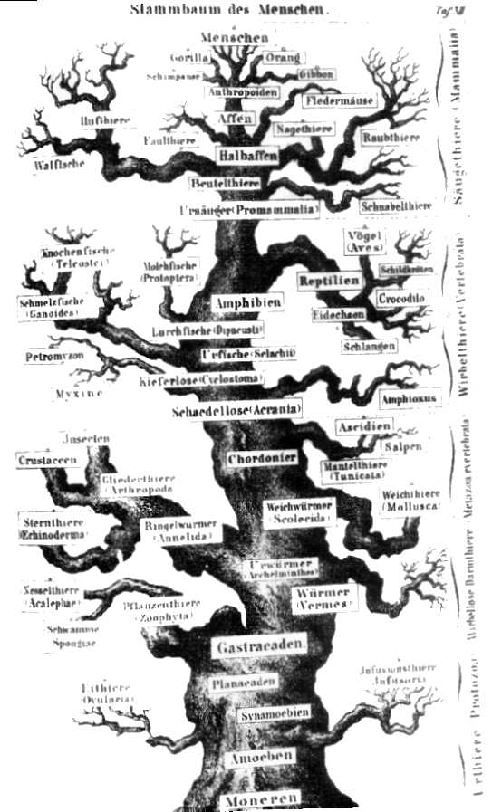 Phylogenetic tree